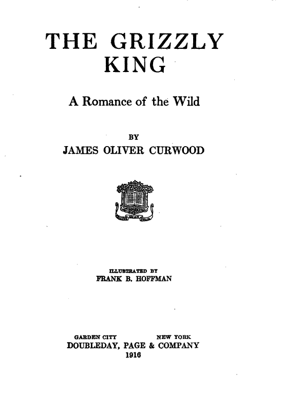 Title page from James Oliver Curwood's 1916 novel The Grizzly King: A Romance of the Wild.